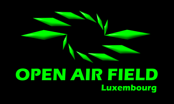 The Logo of the Open Air Field in Luxembourg